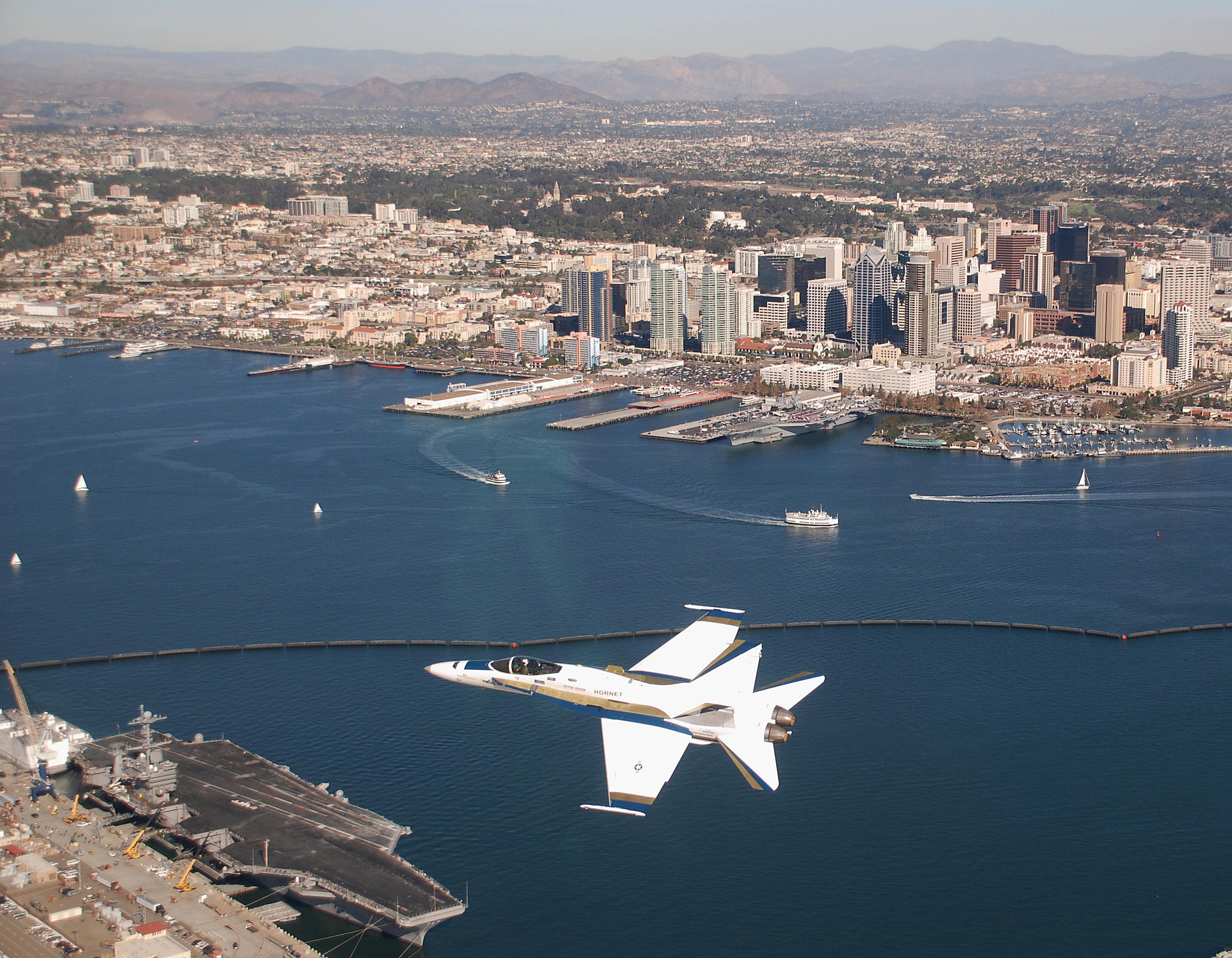 U.S. Navy Cmdr. Craig Reiner flies an F/A-18C Hornet strike fighter from Fleet Readiness Center Southwest over Naval Air Station North Island, California, and the aircraft carrier USS John C. Stennis (CVN 74) November 18, 2008, in San Diego. The Hornet is painted to match that of the first F/A-18 flight for its 30th anniversary.